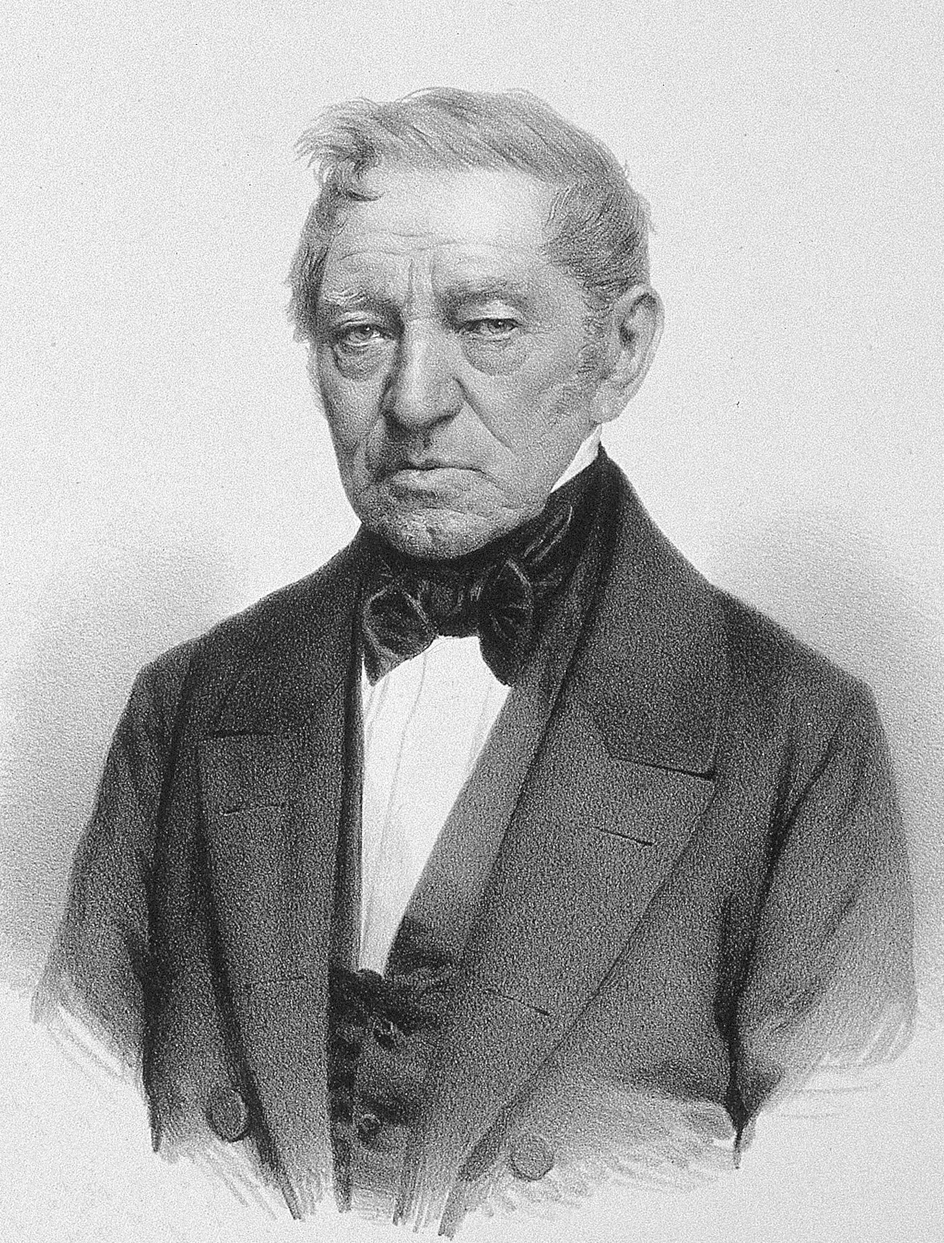 Martin Hinrich Lichtenstein (1780-1857), zoologist, explorer. Lithography by Rudolf Hoffmann, 1857, after a photo by Schwartz & Zschille (Berlin). From Gallerie ausgezeichneter Naturforscher published in Vienna